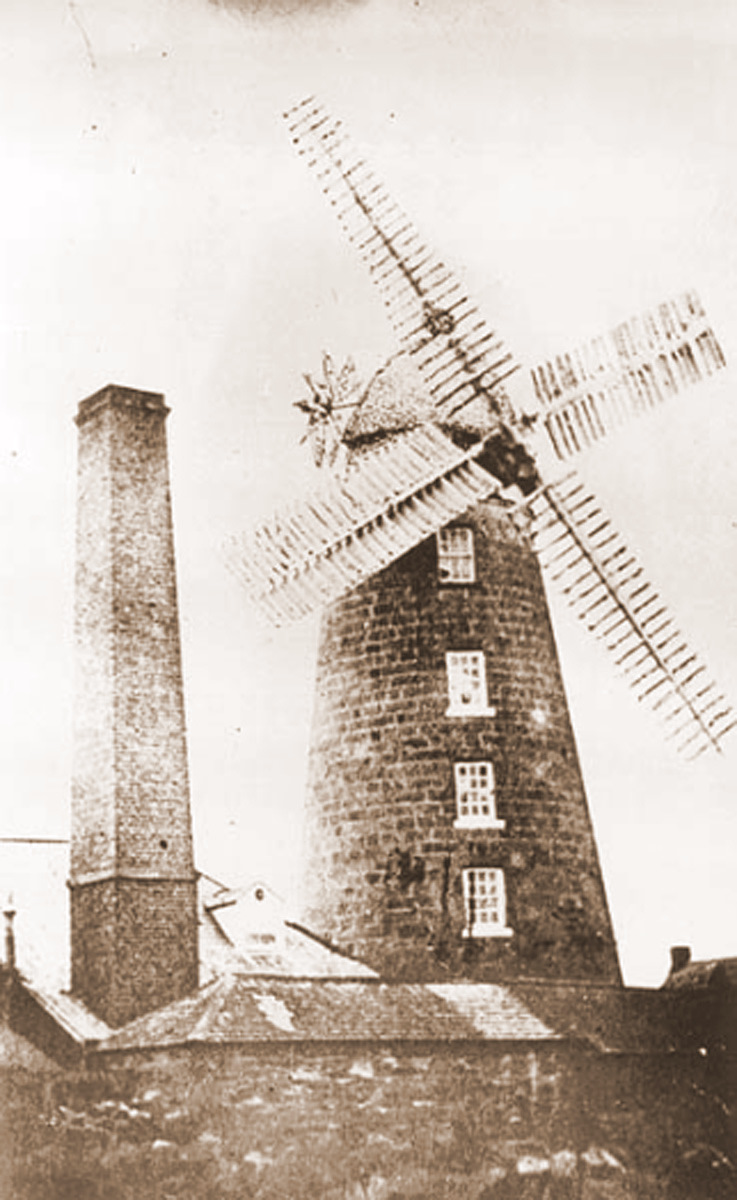 Callington Mill, Oatlands, Tasmania circa 1880.